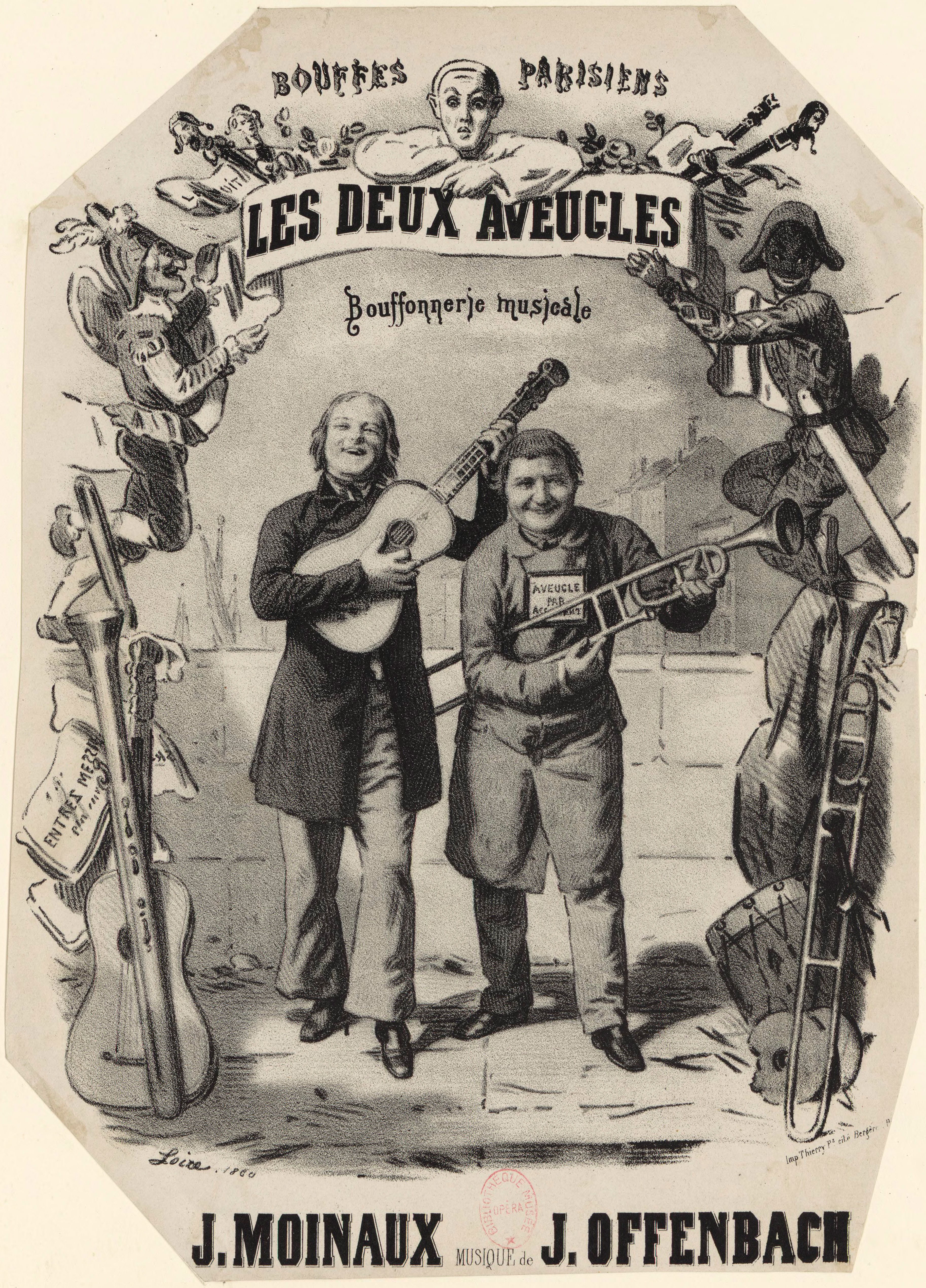 Drawing for the cover of the piano-vocal score of Jacques Offenbach's operetta Les deux aveugles (30 x 22 cm), first performed on 5 July 1855